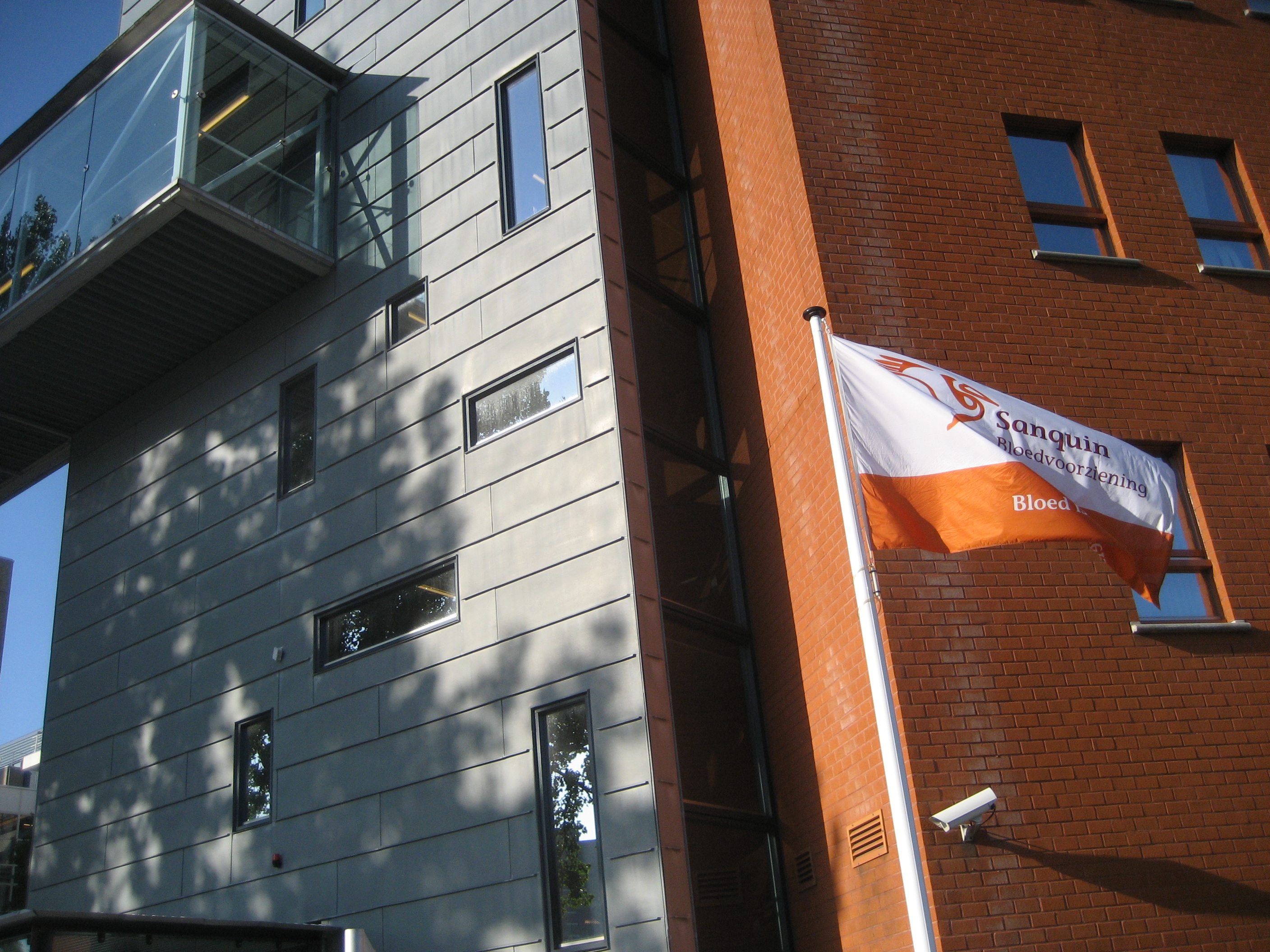 Blood bank, Leiden (The Netherlands)